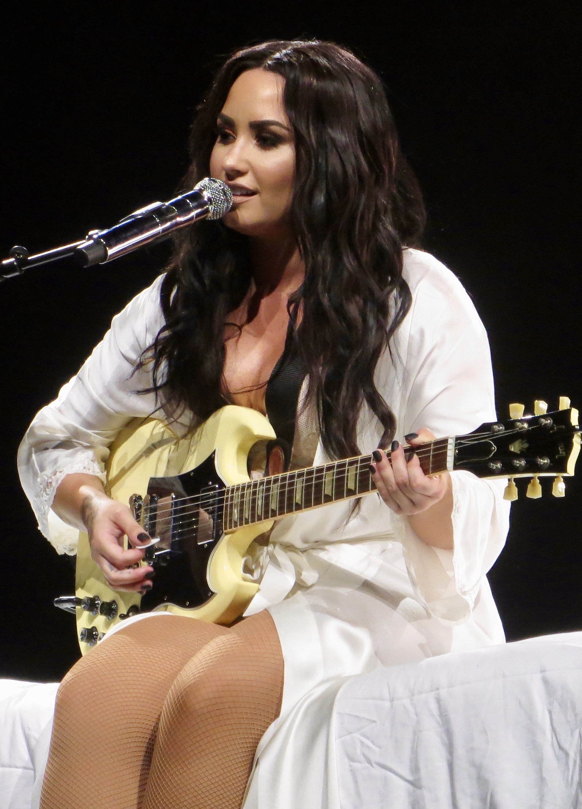 Demi Lovato at Tell Me You Love Me Tour in Glasgow